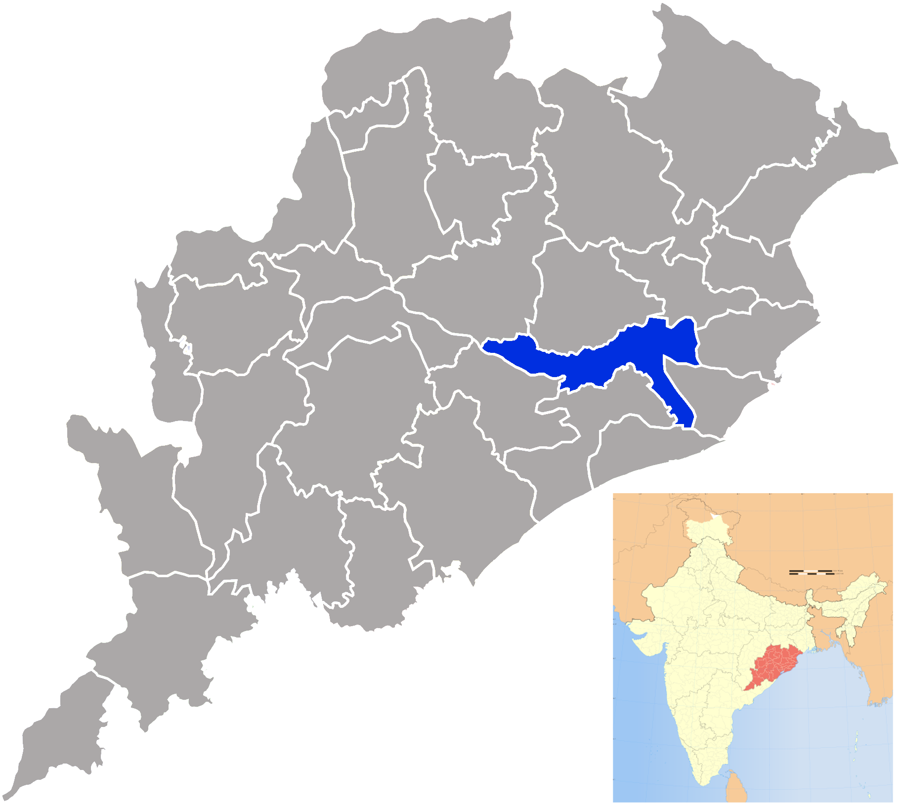 Cuttack district in Orissa